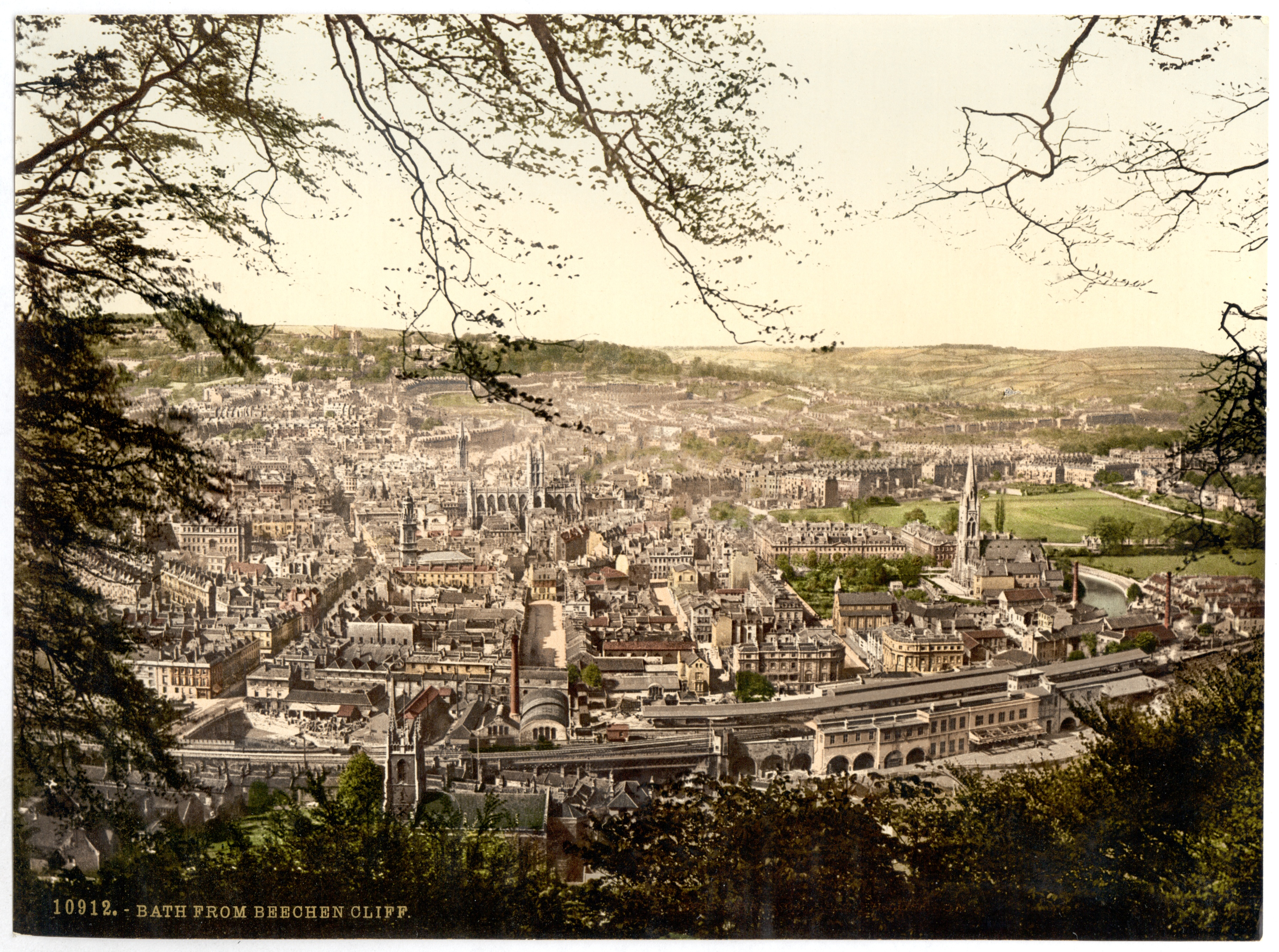 Photochrom of the Roman Baths in Bath